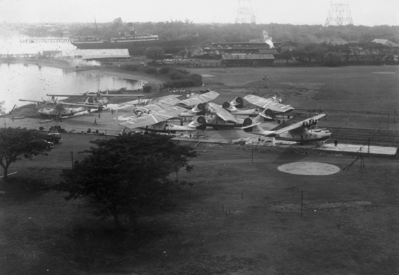 U.S. Navy Consolidated PBY-4 Catalina patrol aircraft from Patrol Squadron 21 (VP-21) on the seplane ramp at the U.S. Naval Station Sangley Point, Philippines, circa 1939-1940. Note the masts of the Naval Radio Station in the background. VP-21 deployed from Hawaii in September 1939 with fifteen brand new PBY-4 flying boats, arriving on the 20th. Seaplane tender USS Langley (AV-3) deployed in support, because there was no aviation support base in the Philippines. What became Naval Air Station Sangley Point was only then started, and the concrete seaplane ramp was only completed to a point it became useful in January 1940. This photo must have been taken shortly thereafter.